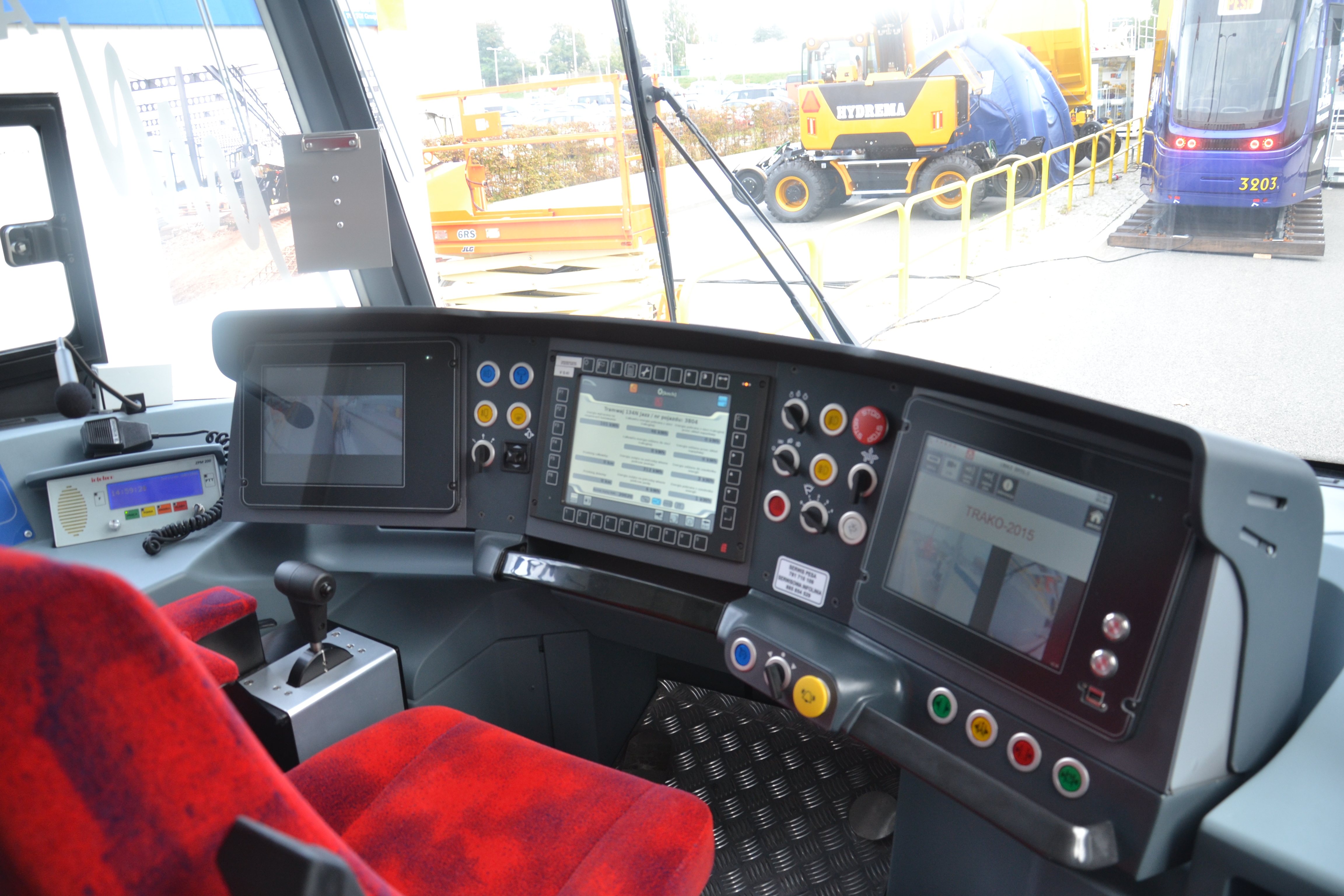 Kabina motorniczego- Pesa Jazz 134N This photo was taken during Railway Wikiexpedition 2015 set up by Wikimedia Polska Association in cooperation with Fundacja Grupy PKP. You can see all photographs in category Wikiekspedycja kolejowa 2015.